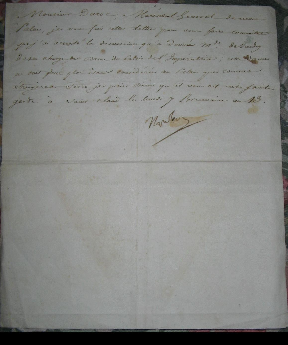 Letter from Napoleon Bonaparte to Duroc, the Marshall General of the Palace. In the letter, Napoleon accepts the resignation of his recent mistress Mlle. de Vaudey as lady-in-waiting to Joséphine. Dated 7 brumaire, XIII. Saint-Cloud. October 29, 1804